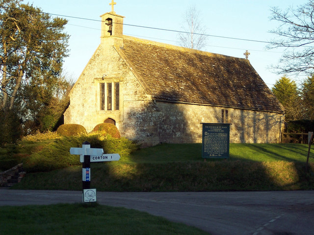 The Church of St James, Tytherington Reputed to be the oldest church in Wiltshire.